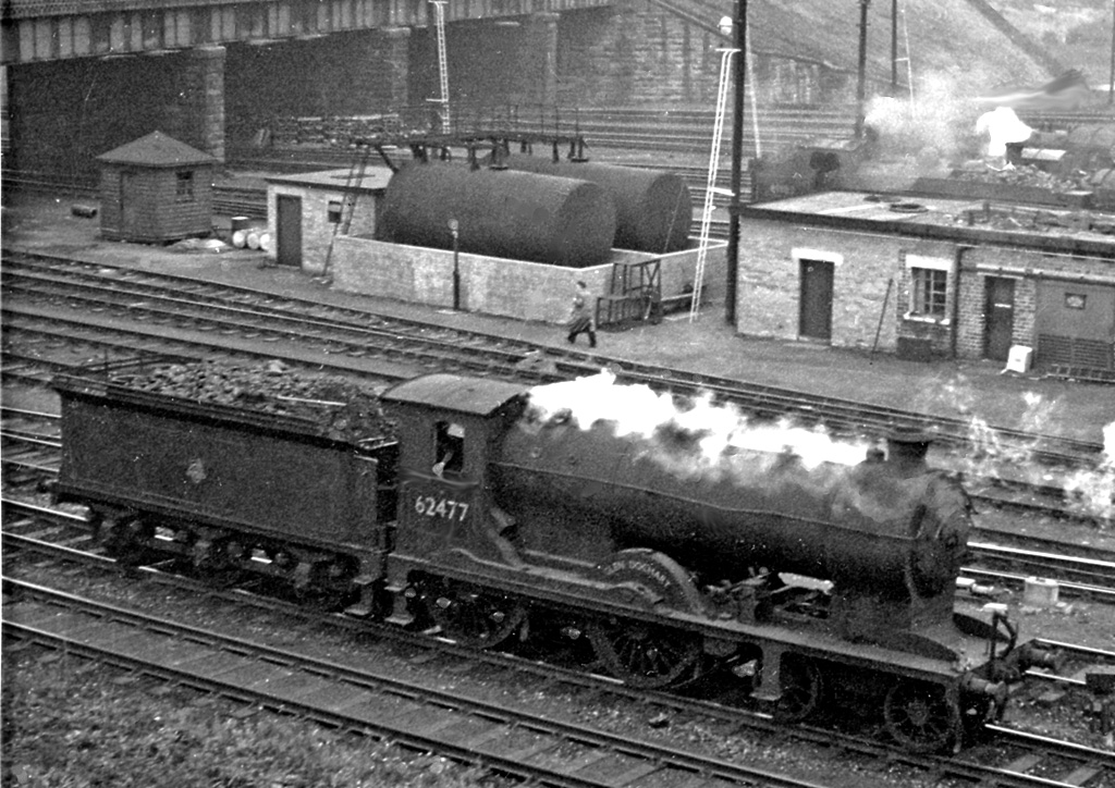 A North British 'Glen' 4-4-0 at Eastfield Locomotive Depot. View westward over the north end of the Depot, featuring ex-NB D34 'Glen' 4-4-0 No. 62477 'Glen Dochart' in the yard. Eastfield was the principal Locomotive Depot of the LNER (ex-NBR) in Glasgow, which in 1954 was coded 65A and had an allocation of 141, comprising: 20 4-6-0 (3 LMS, 17 LNE), 19 4-4-0, 25 2-6-0 (6 LMS, 18 LNE), 21 0-6-0, 6 4-4-2T, 7 2-6-2T, 2 0-8-0T, 18 0-6-2T, 21 0-6-0T, 2 0-4-0T, constituting a remarkable variety of types and classes. The 'Glen' would have been used mainly on West Highland Line passenger trains.